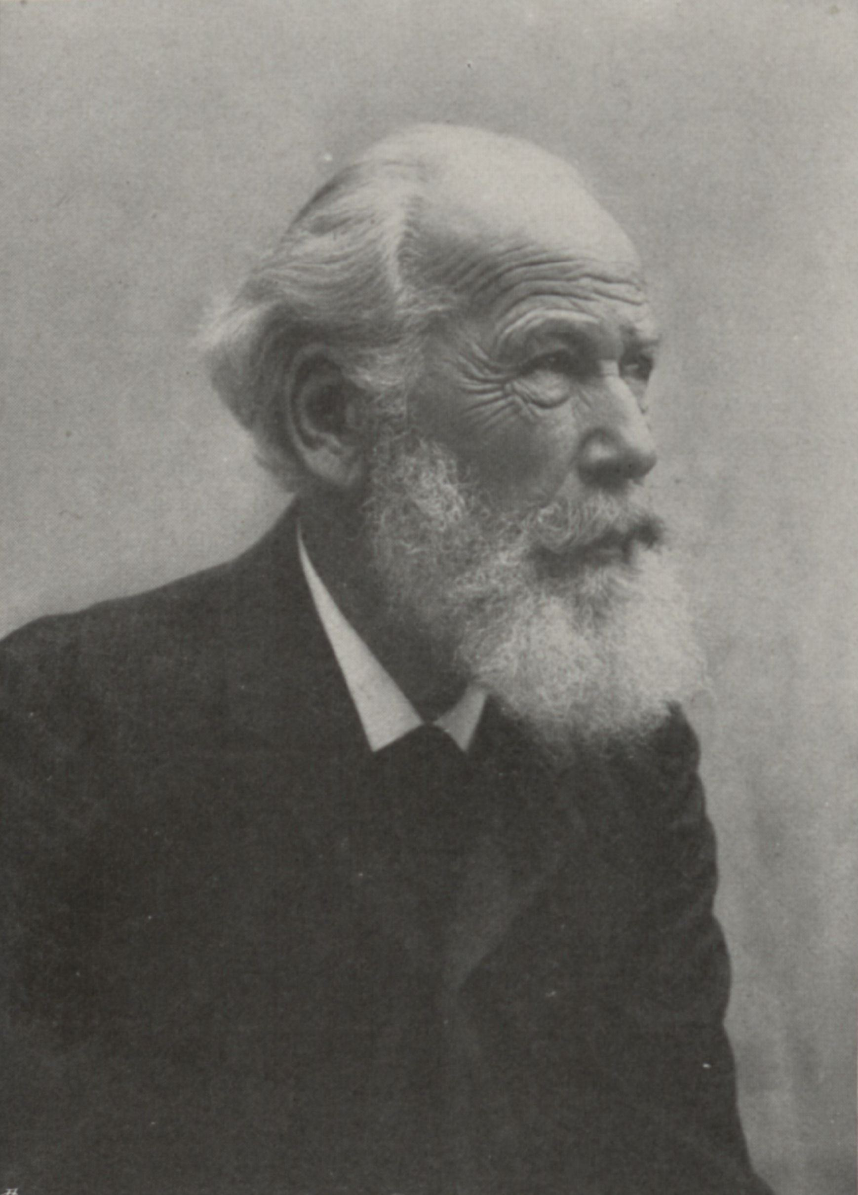 Johannes Gad